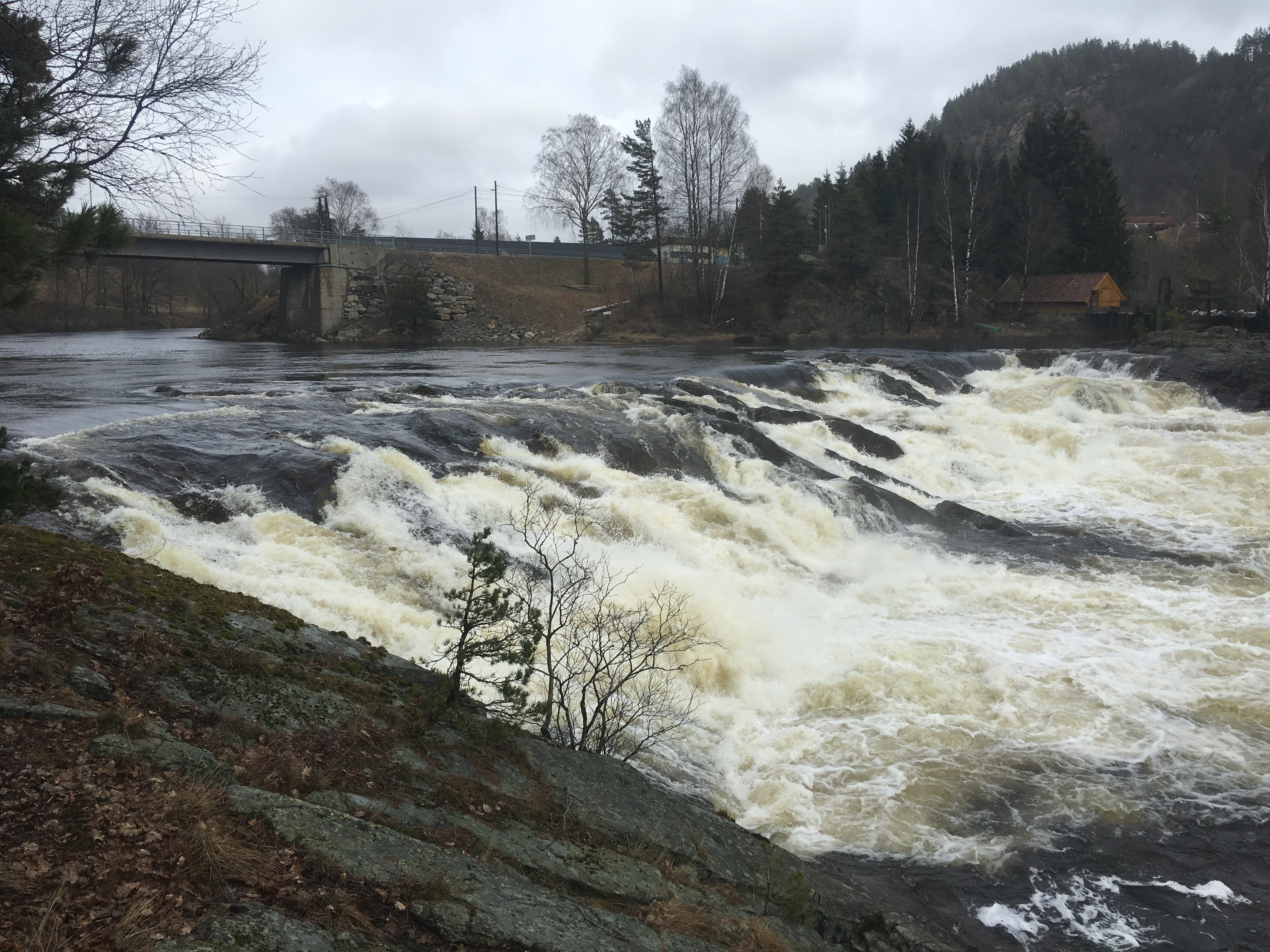 The Boenfoss waterfall, powering the Boen Bruk wood industry production plant. Kristiansand, Norway.